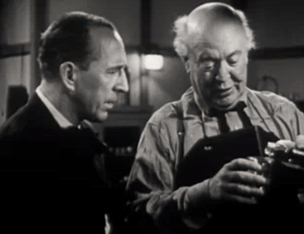 Charles Butterworth and Guy Kibbee in Dixie Jamboree (1944) - cropped screenshot.